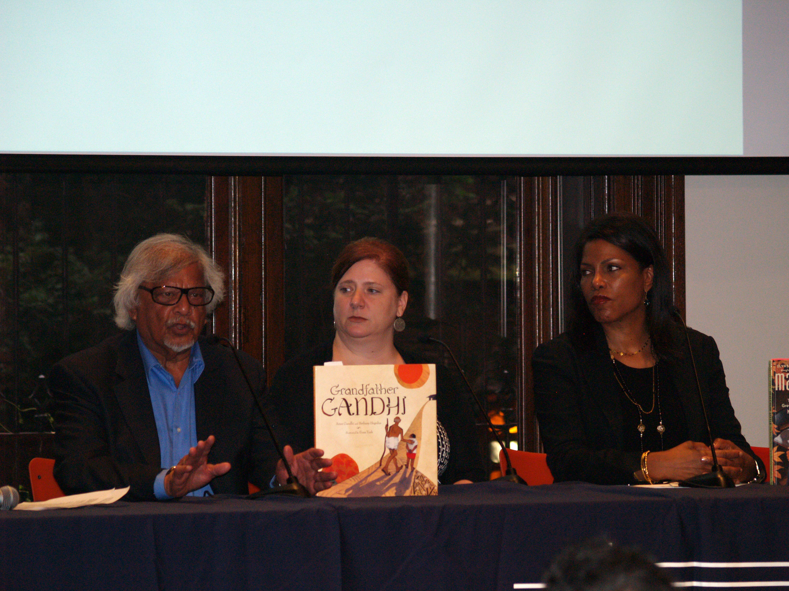 The "Peace: The Next Generation" panel at the the 2014 Brooklyn Book Festival, in which daughter of Malcolm X, Ilyasah Shabazz and the grandson of Mahatma Gandhi, Arun Gandhi, discuss their lives growing up as the child and grandchild of political figures, and how those lives inspired them to write the children's books, Little Malcolm, and Grandfather Gandhi, respectively. From left to right: Moderator and children's book author Namrata Tripathi, Arun Gandhi, Grandfather Gandhi co-author Bethany Hegedus, Ilyasah Shabazz, Little Malcolm illustrator A.G. Ford, and Grandfather Gandhi illustrator Evan Turk. This photo was created by Luigi Novi. It is not in the public domain, and use of this file outside of the licensing terms is a copyright violation.